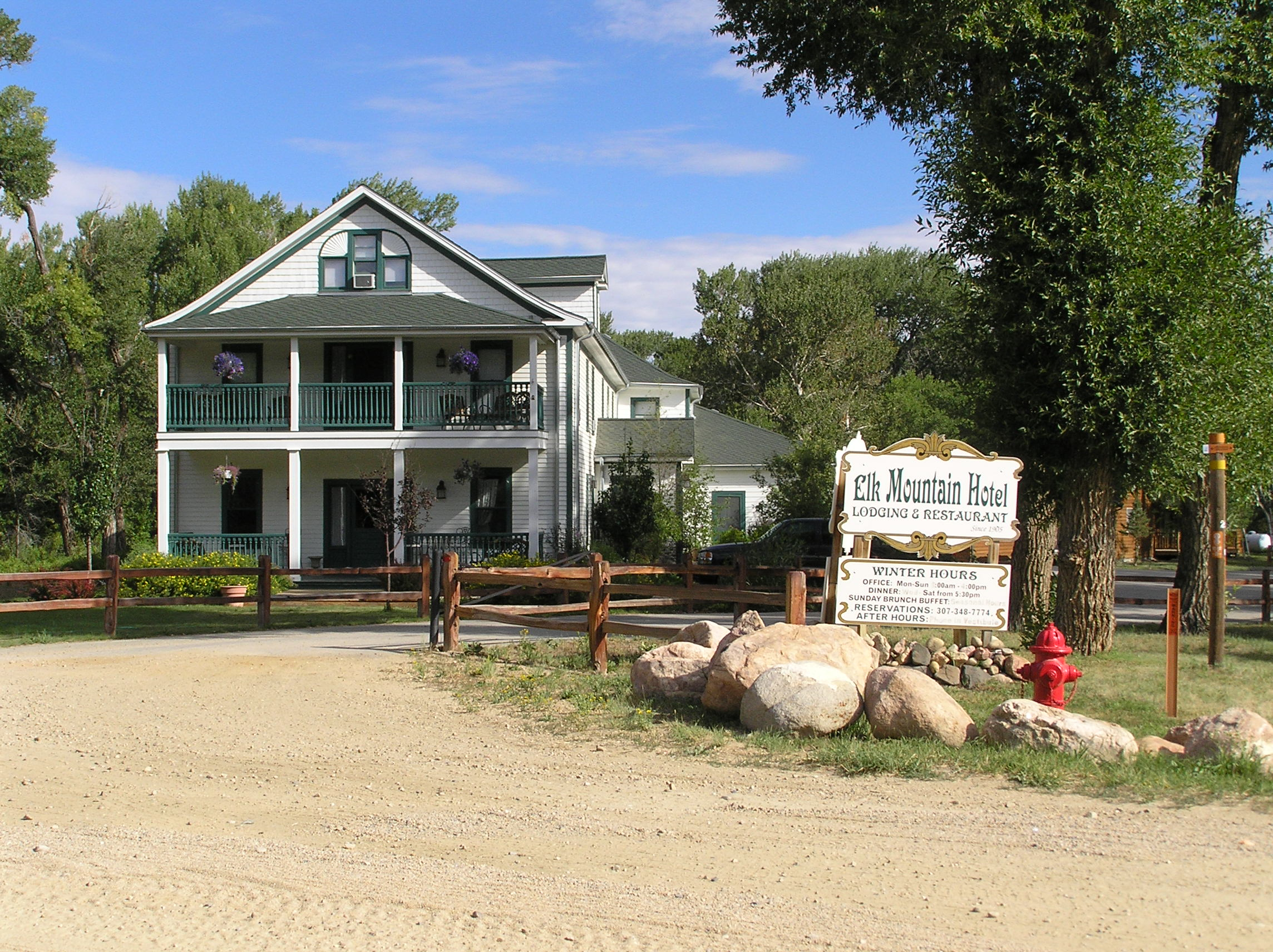 Elk Mountain Hotel, Bridge St. and County Road 402 Elk Mountain